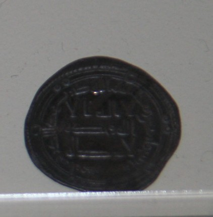 Silver dirham of Shirvanshah Muhammad bin Yazid. Museum of History of Azerbaijan.